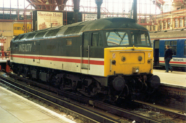 Diesel engine at Brighton Station The engine off the Express.